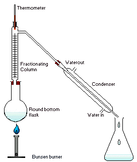 Diagram , drawn by theresa knott. This diagram was created with the drawing tools that come with Microsoft Word. See Wikipedia:How to draw a diagram with Microsoft Word for advice on how to draw diagrams like this.